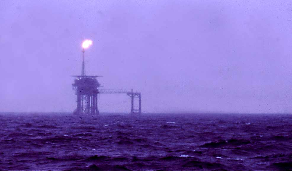 North Sea Oil rig